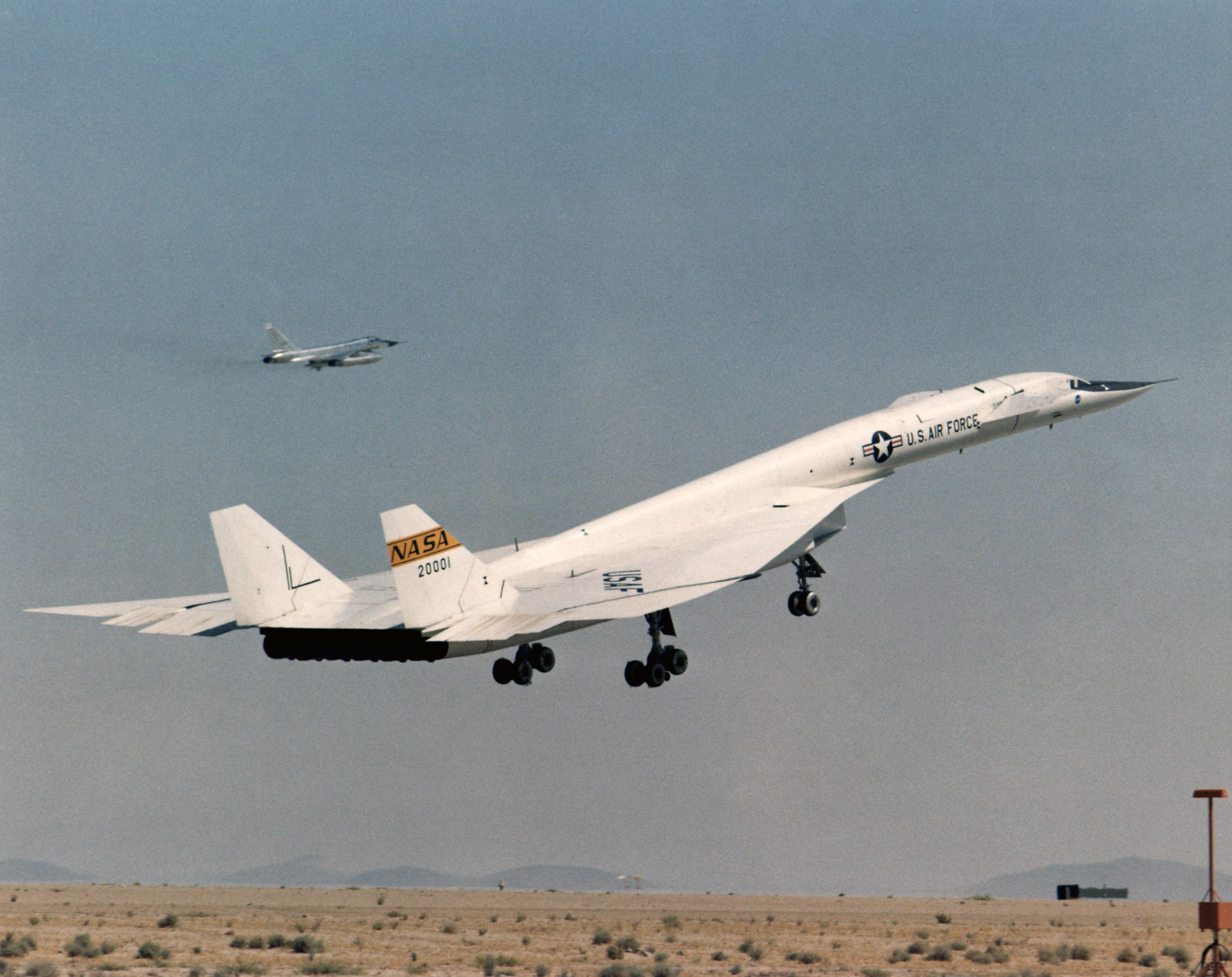 The XB-70A #1 is seen taking off on a research flight, escorted by a TB-58 chase plane. The TB-58 (a prototype B-58 modified as a trainer) had a dash speed of Mach 2. This allowed it to stay close to the XB-70 as it conducted its research maneuvers. When the XB-70 was flying at or near Mach 3, the slower TB-58 could often keep up with it by flying lower and cutting inside the turns in the XB-70's flight path when these occurred.